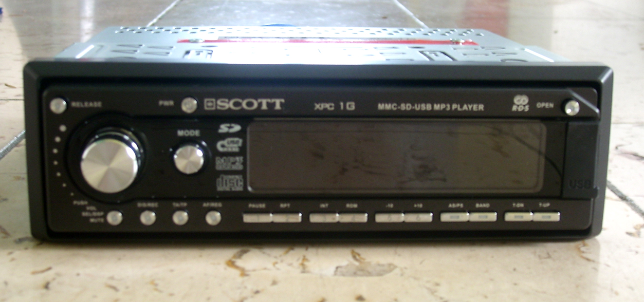 Audioscott XPC 1G (H.H.Scott) Autoradio